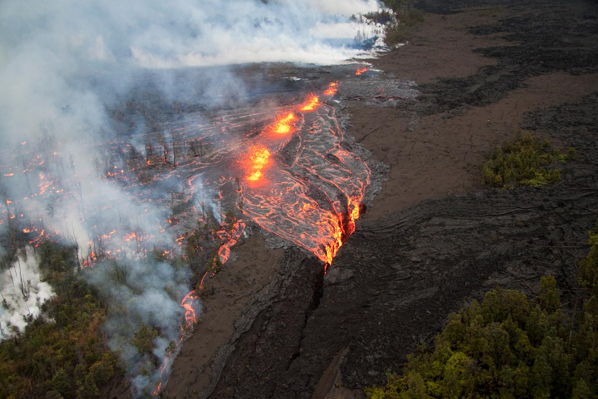 Aerial view of Kamoamoa fissure eruption. Lava pours from the fissure just after daybreak and cascades out of sight into a deep crack. HVO geologist near upper right for perspective.